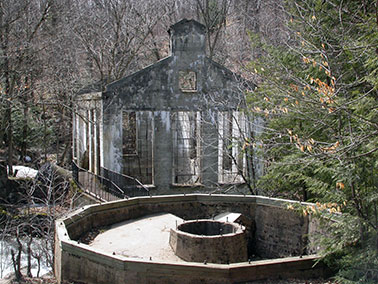 This is a photo taken by me at the Thomas "Carbide" Willson mill near Meech Lake in Gatineau Park in Canada. The ruins are identified on an adjacent plaque as the mill in which he experimented with condensing phosphates to produce fertilizer.